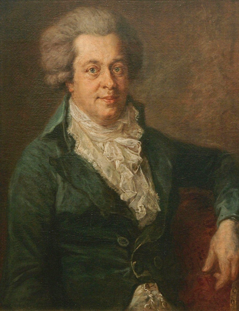 So-called "Edlinger Mozart". The authenticity of this portrait has not been proven. The painting's history from its origin until 1934 is still a matter of ongoing research. It is uncertain, however, if this part of its history can ever be clarified. Despite of this problem, the painting has attracted much attention because of its high artistic quality and because of being a strong candidate for the last portrait of the composer.